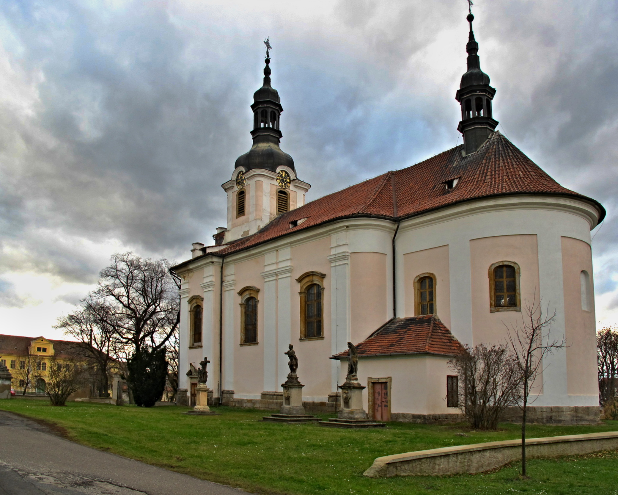 The Church of St James in Cítoliby (Czech Republic) Kostel sv. Jakuba v Cítolibech